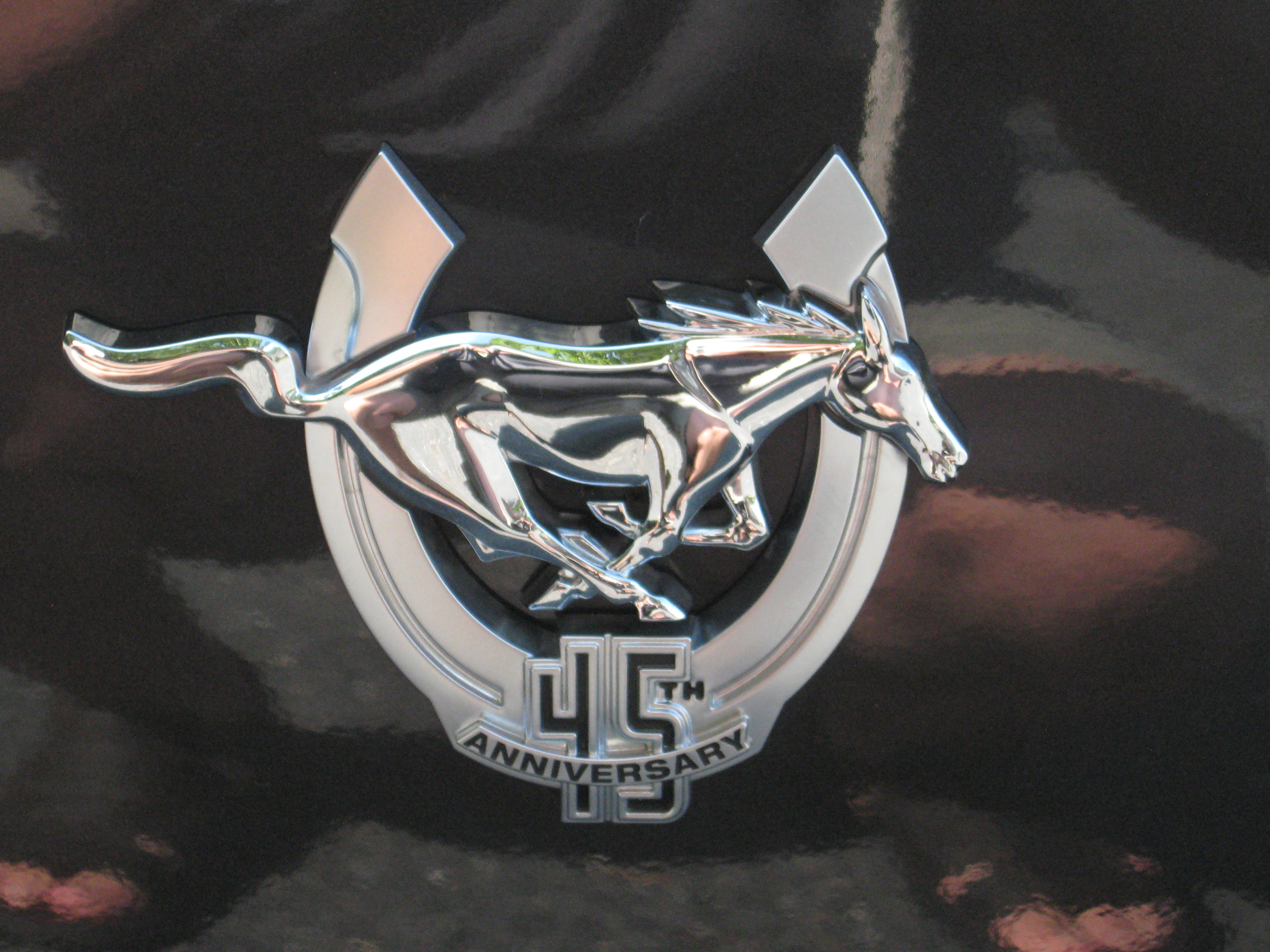 2009 Ford Mustang GT 45th Anniversay Edition Badge